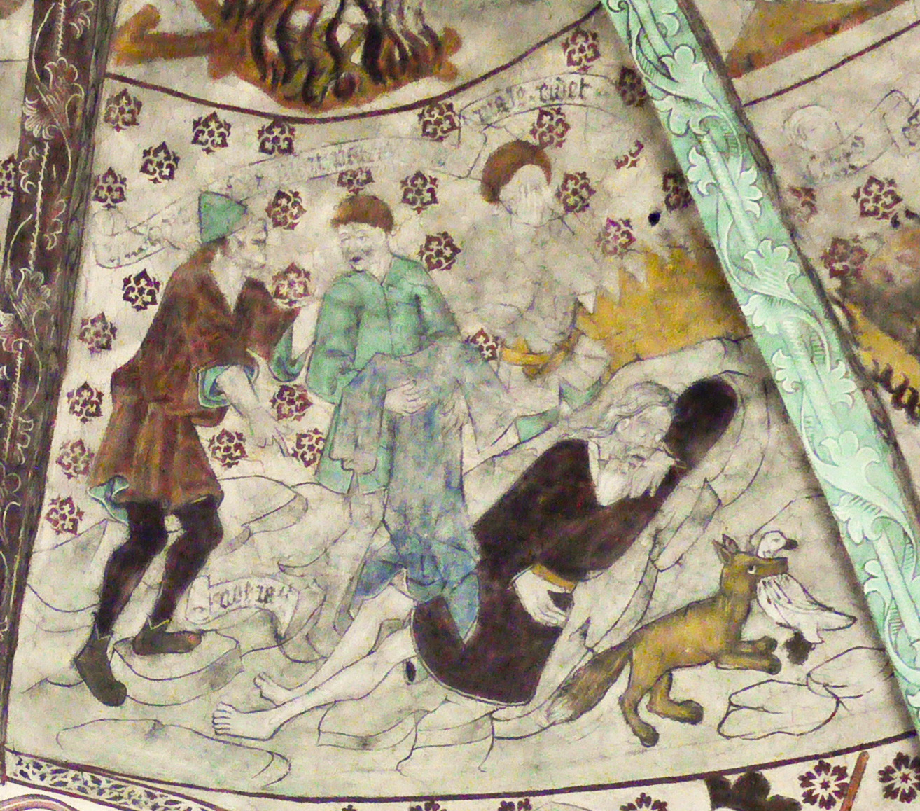 Härkeberga kyrka/church. Diocese of Uppsala, Enköping, Sweden. Medieval paintings by Albertus Pictor.